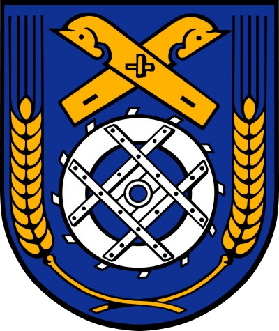 Coat of Arms of Warpe